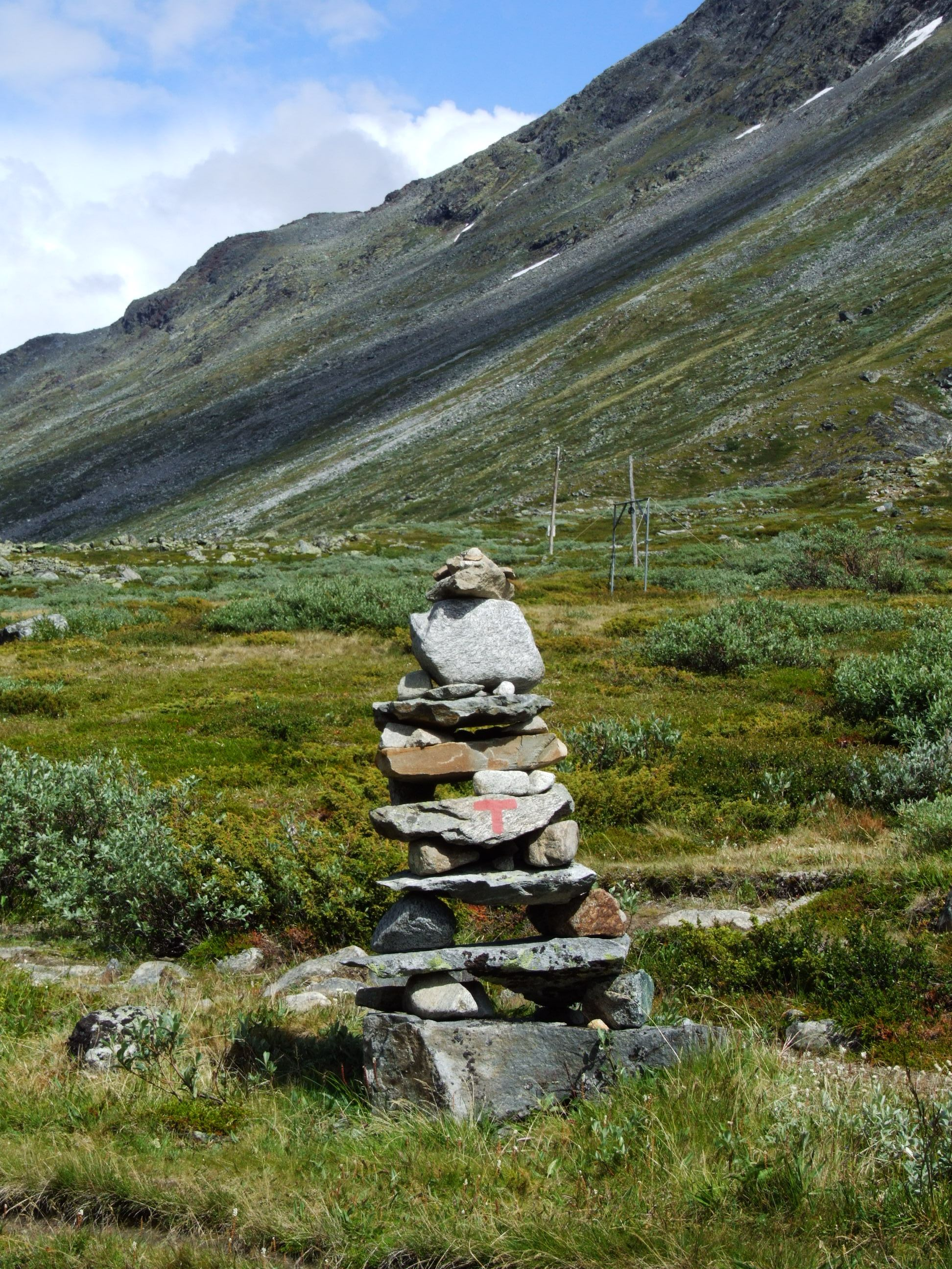 Trail blazing in Jotunheimen mountains, Norway